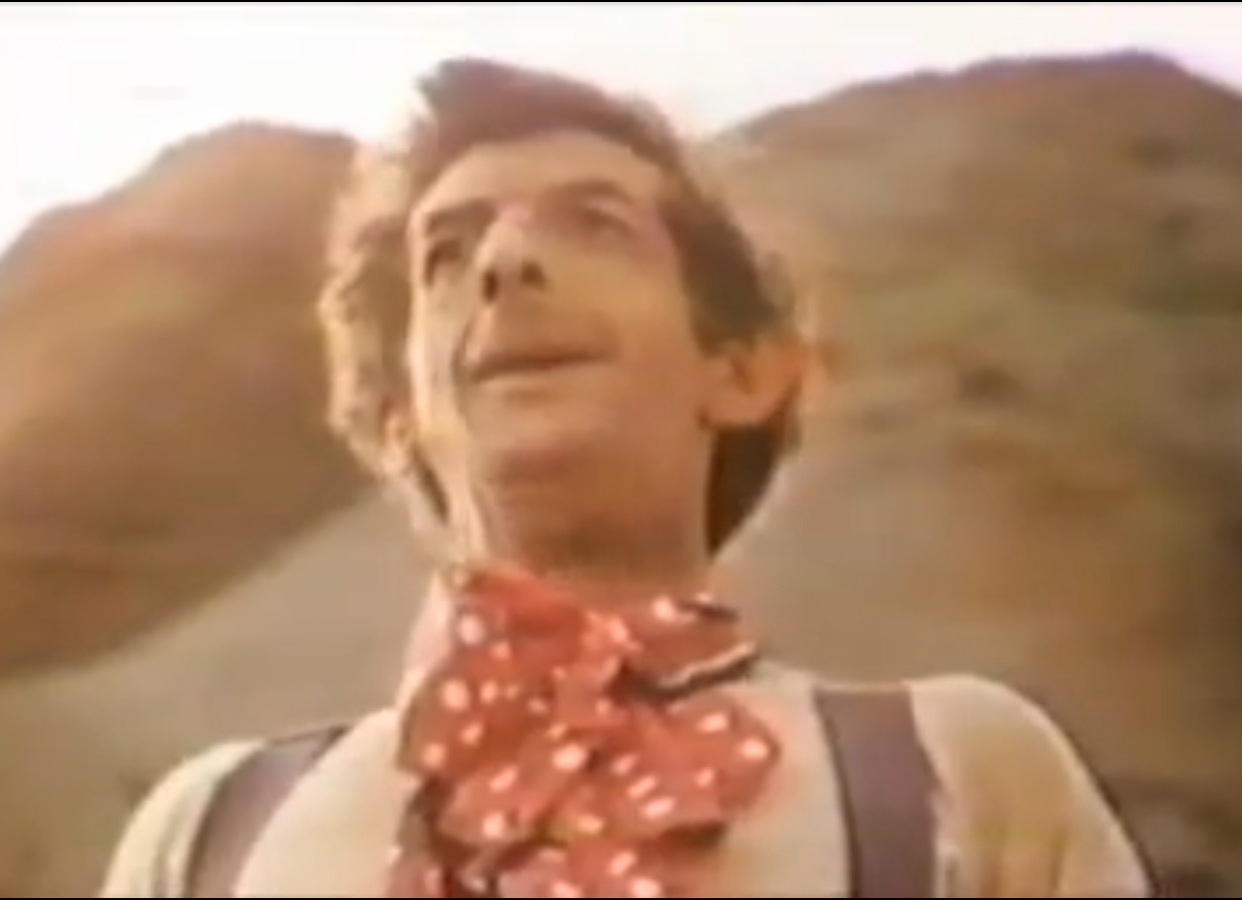 Jack MacGowran in trailer for "How I Won the War" (1967)